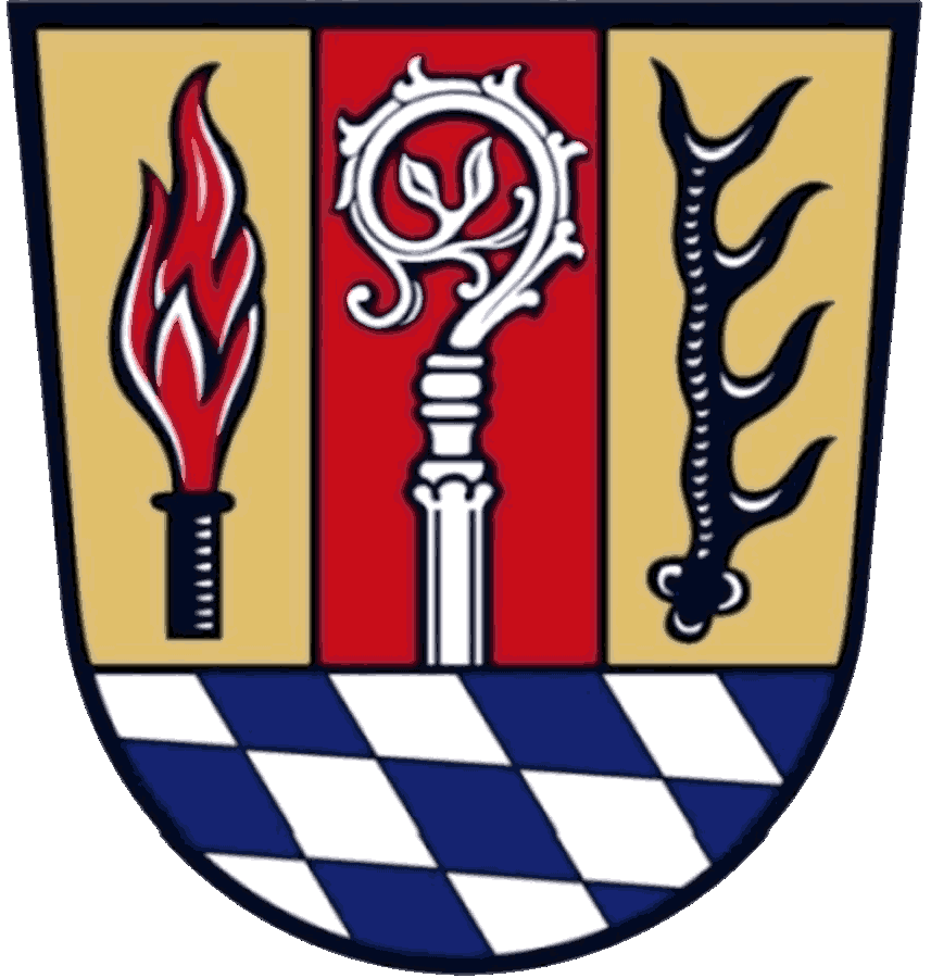 Coat of arms of the district Landkreis Eichstätt